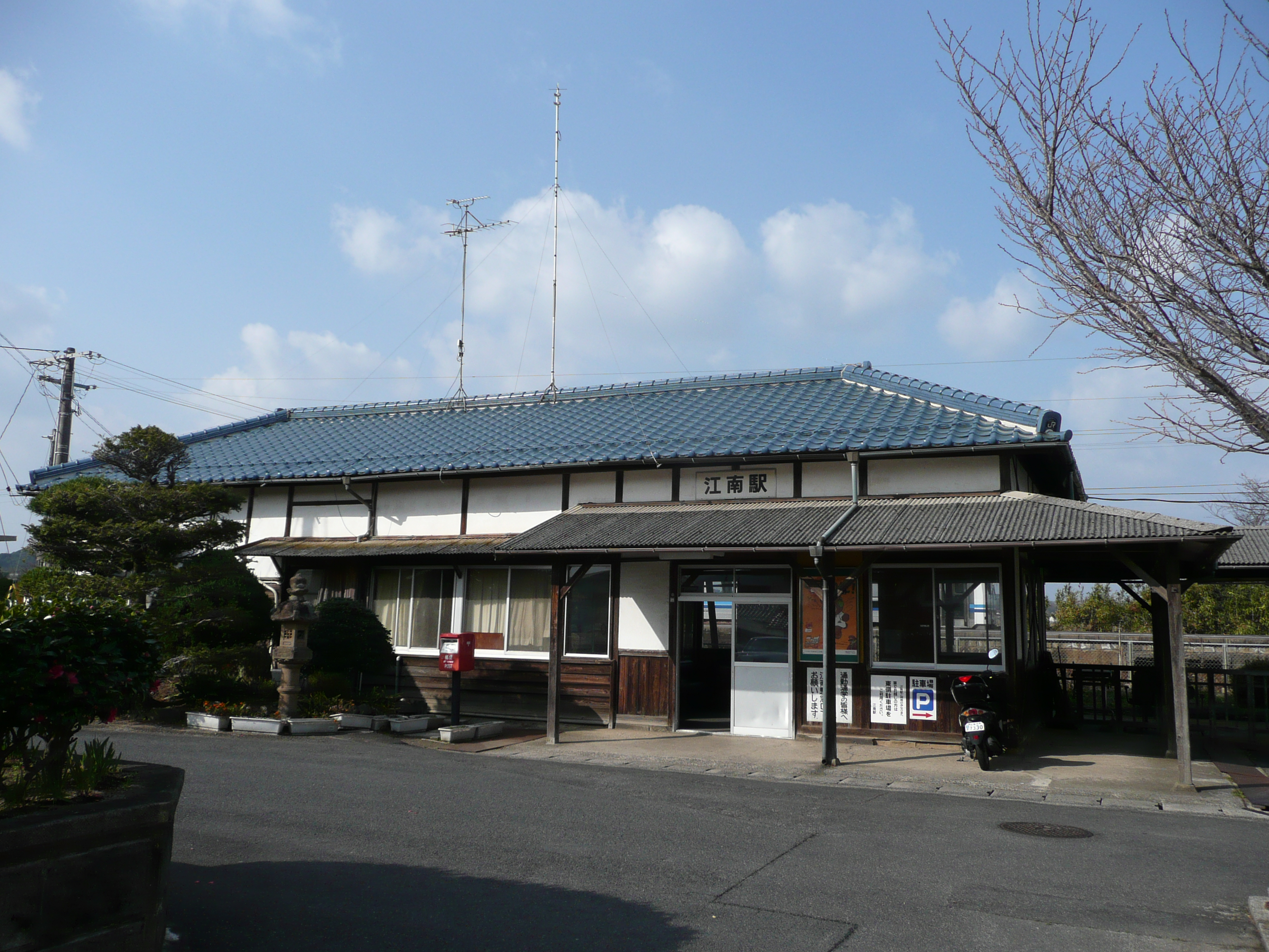 江南駅の駅舎